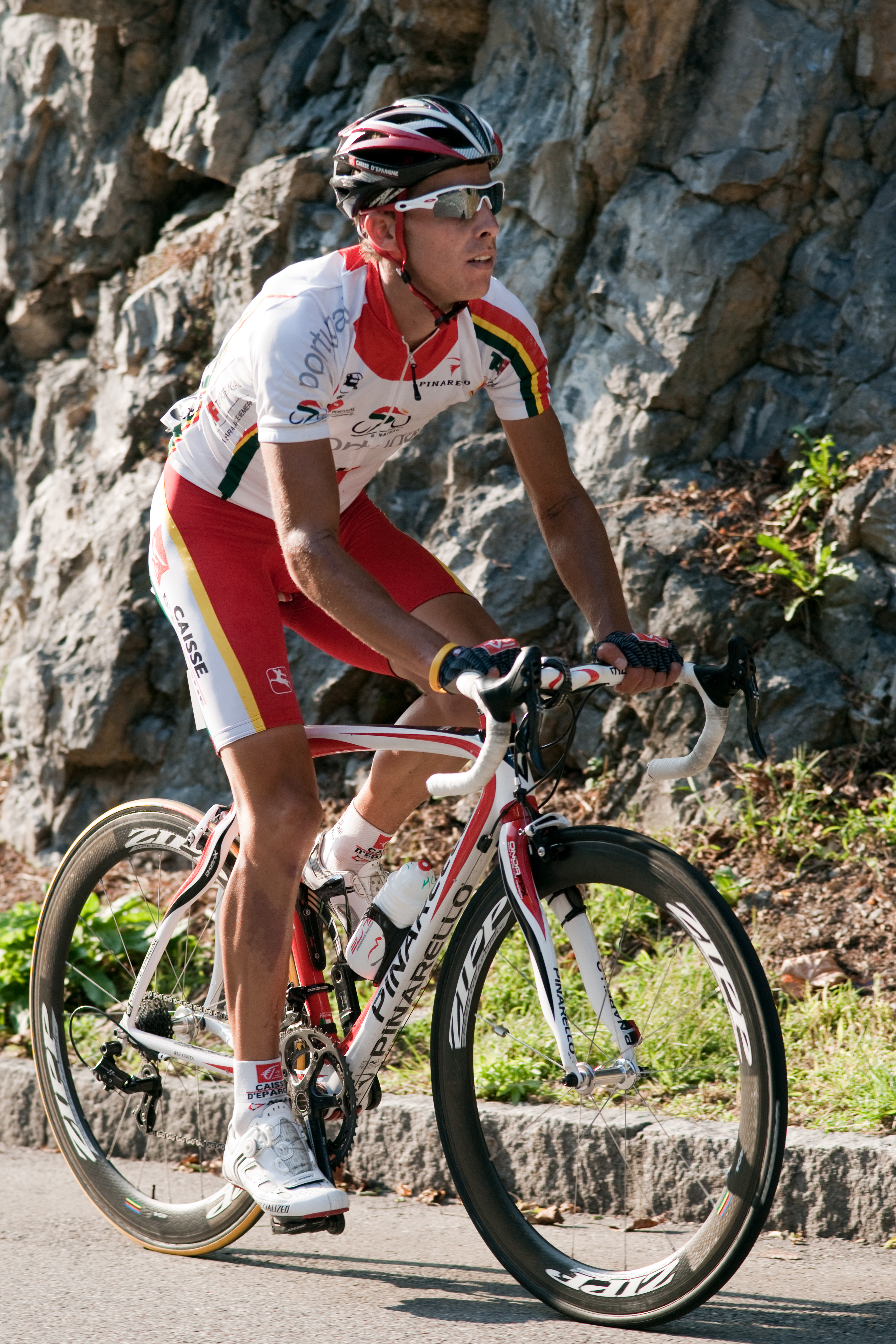 Rui Costa during the 2009 UCI Road World Championships in Mendrisio, Switzerland.